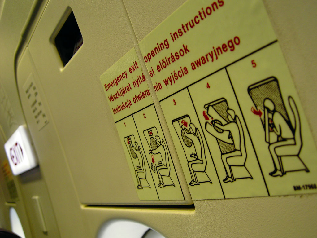 Operating instructions for an overwing emergency exit on an Airbus A320